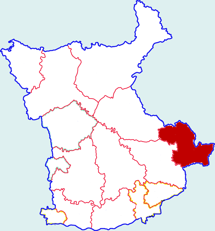 Location of Sanyuan county in Xianyang city, China